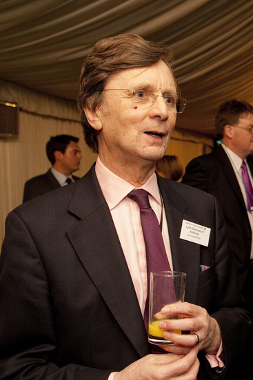 Archy Kirkwood, Baron Kirkwood of Kirkhope at the All-Party Parliamentary Gardening & Horticulture Group meeting - November 2011